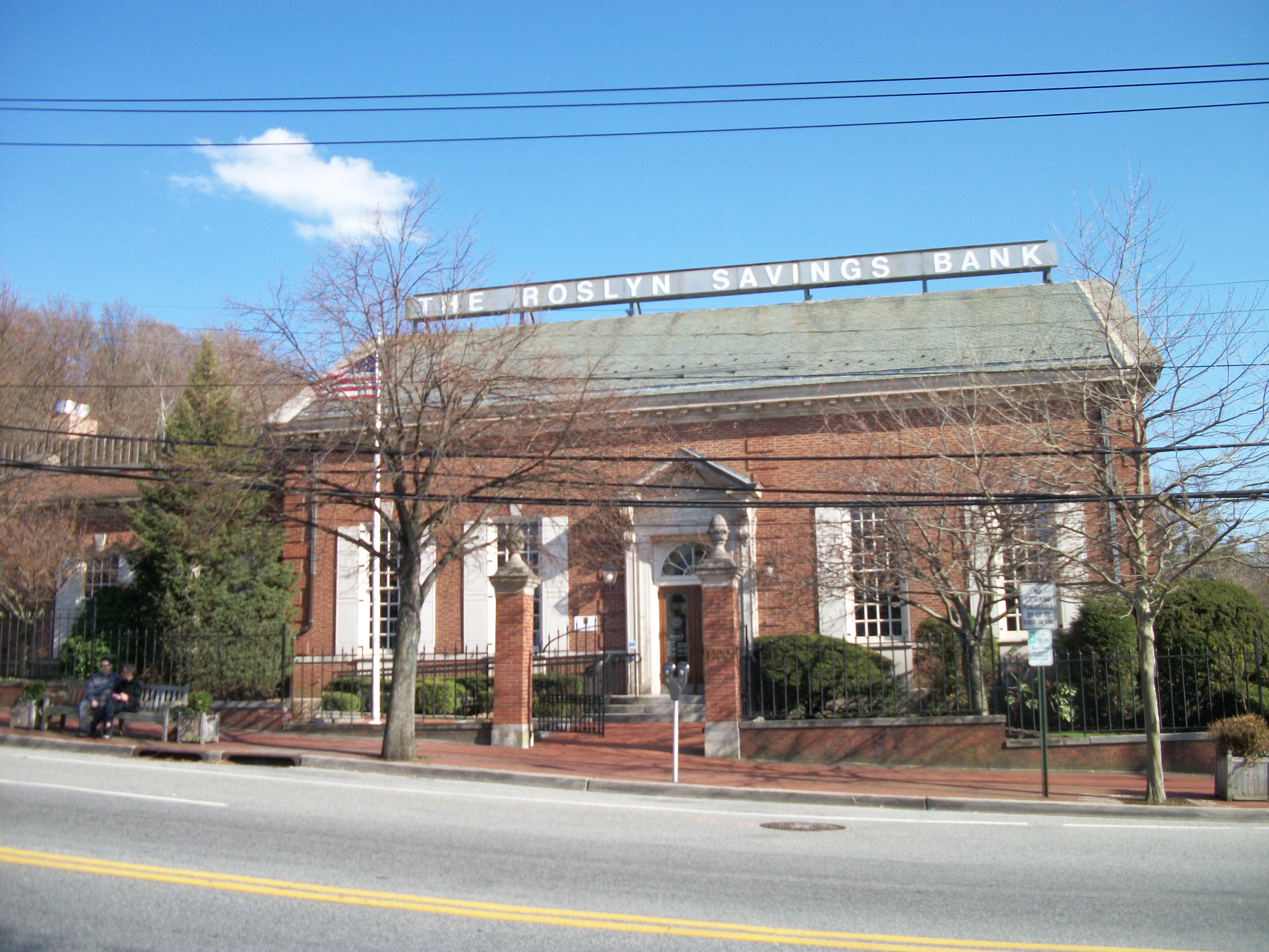 The original Roslyn Savings Bank Building in Roslyn, New York.